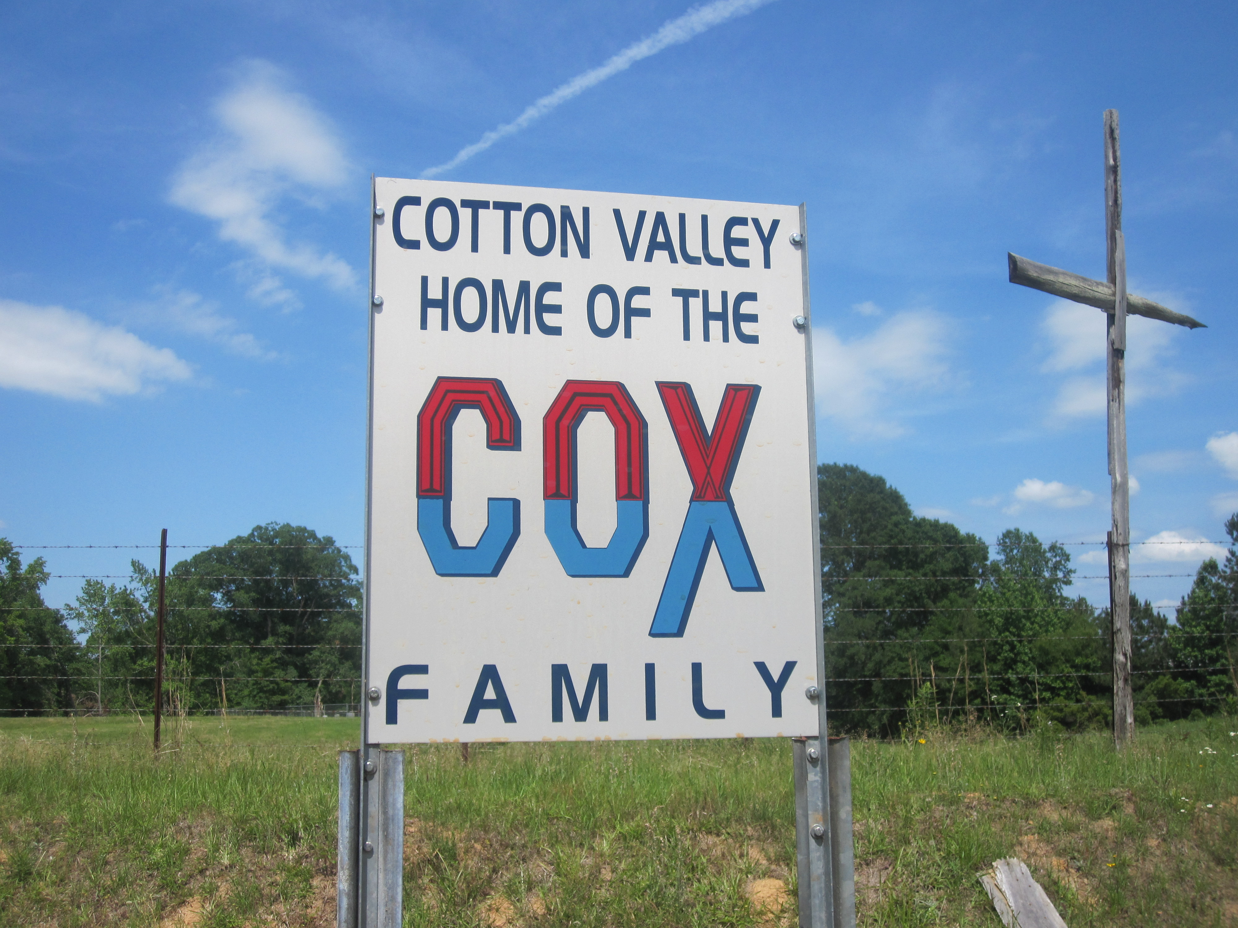 I took photo with Canon camera.